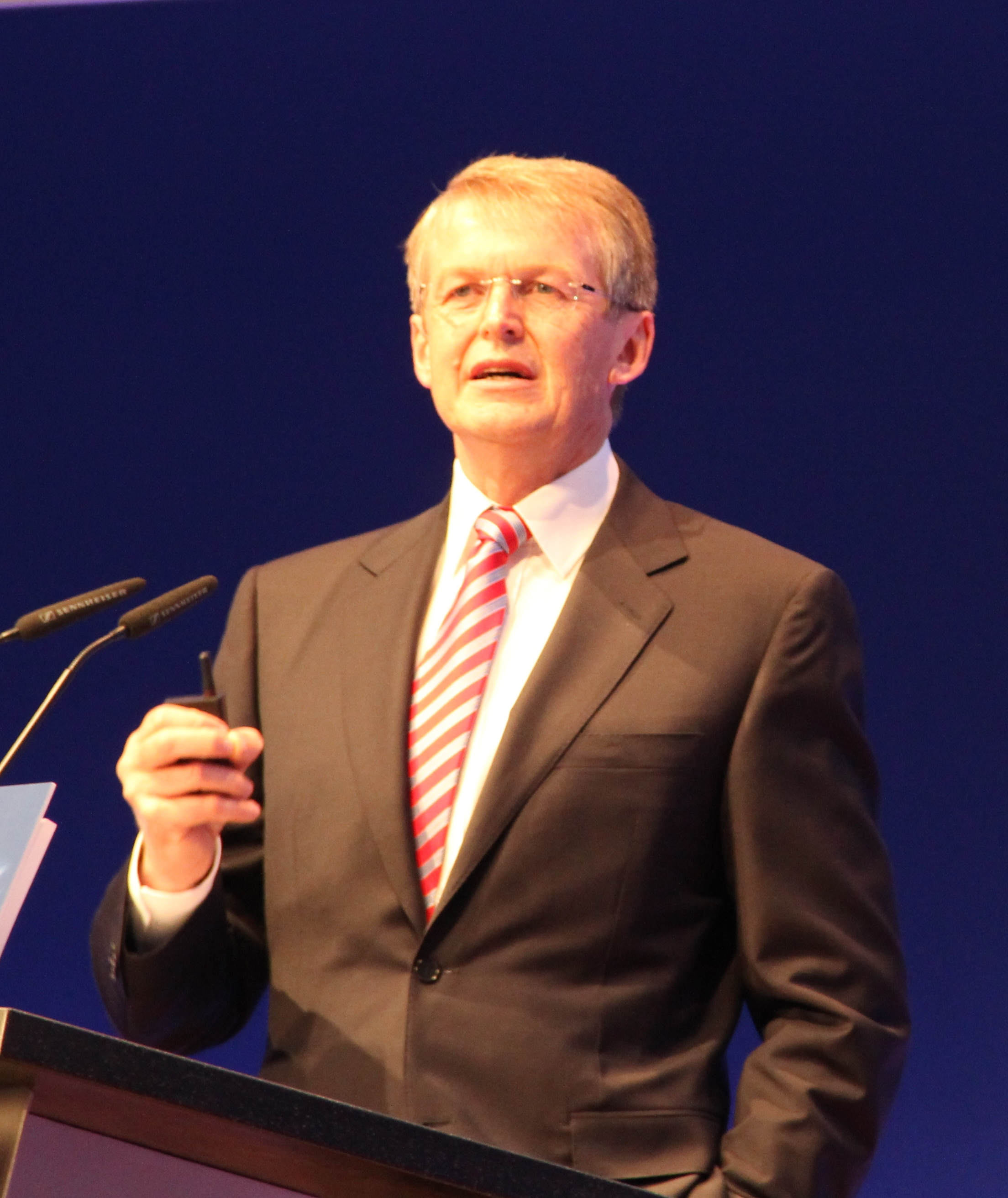 Thomas Weber, Member of the Management Board of Daimler (Germany)